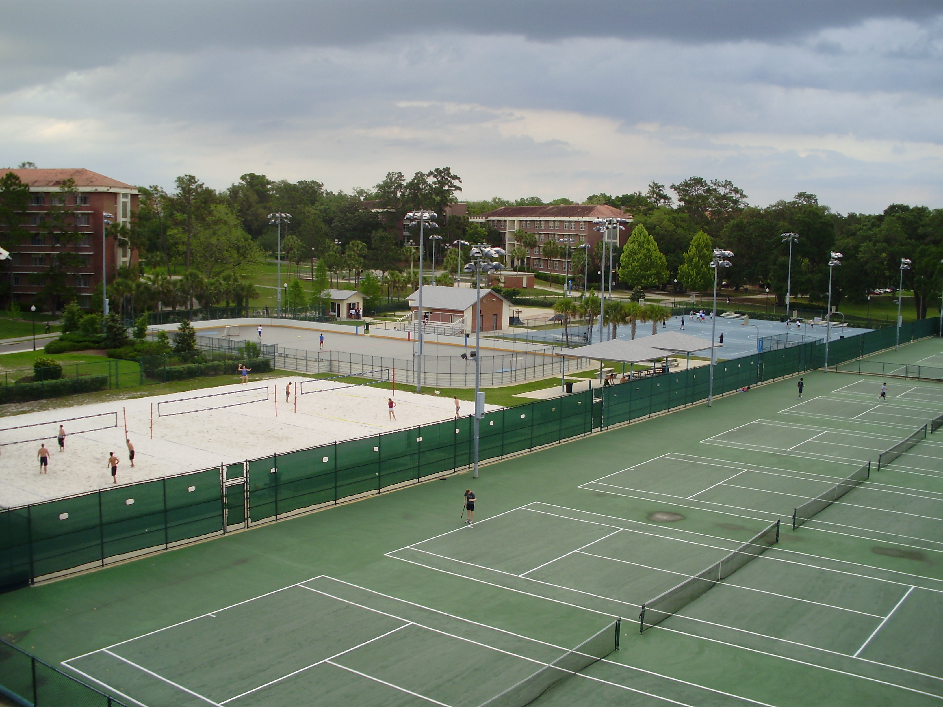 Recreational area south of Broward Hall at the University of Florida